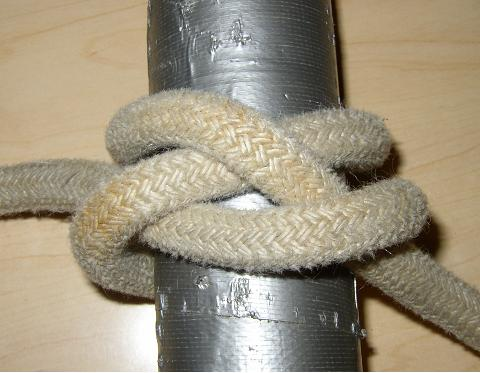 I took the photo.